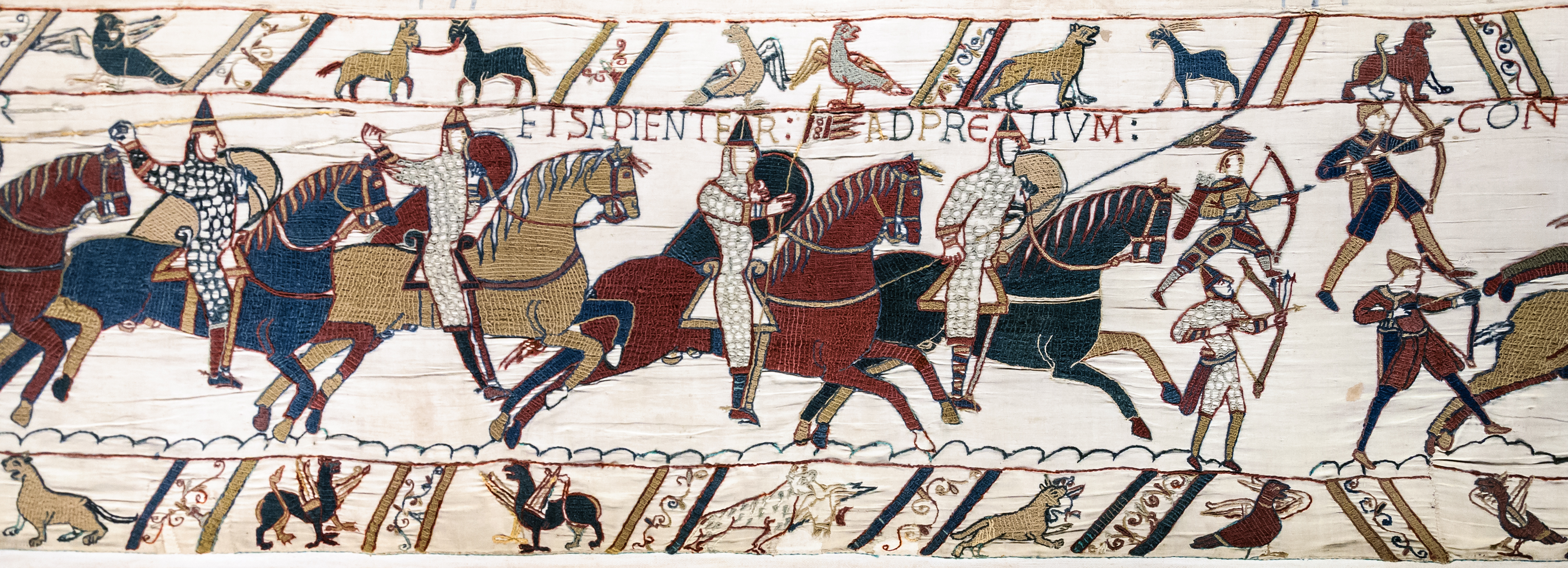 Bayeux Tapestry - Scene 51 (extract)- The Battle of Hastings: Norman knights and archers.